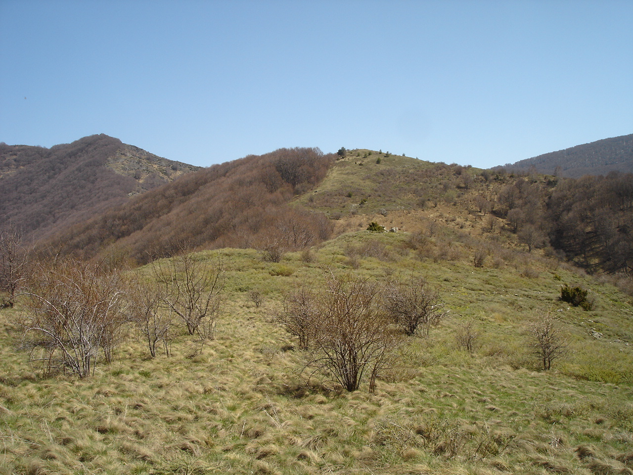 Bela Buka (White Beech) peak on Plackovica Mountain, Macedonia